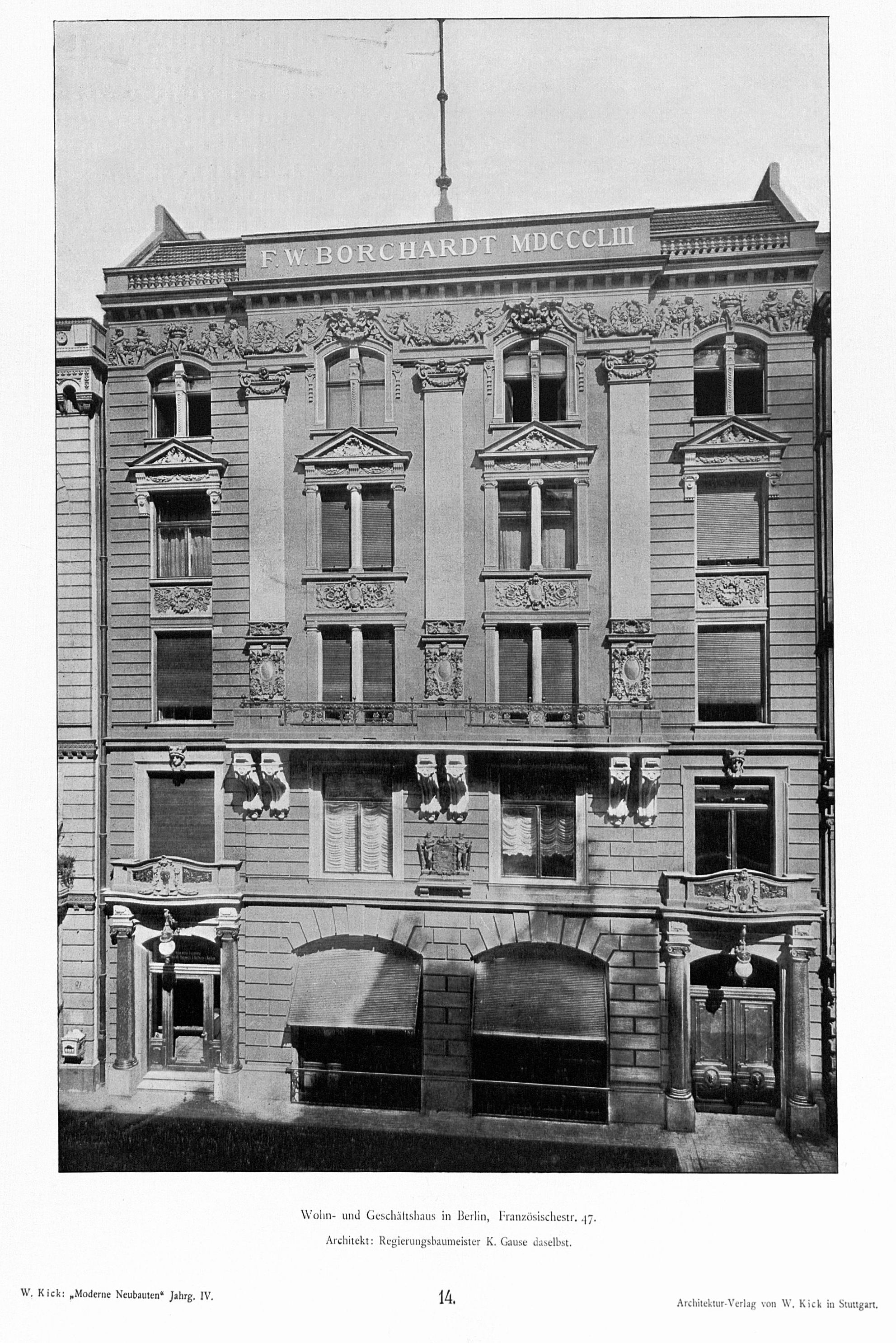 Haus_in_Berlin_Französischestr._47_Architekt_Regierungsbaumeister_K._Gause_Berlin.jpg